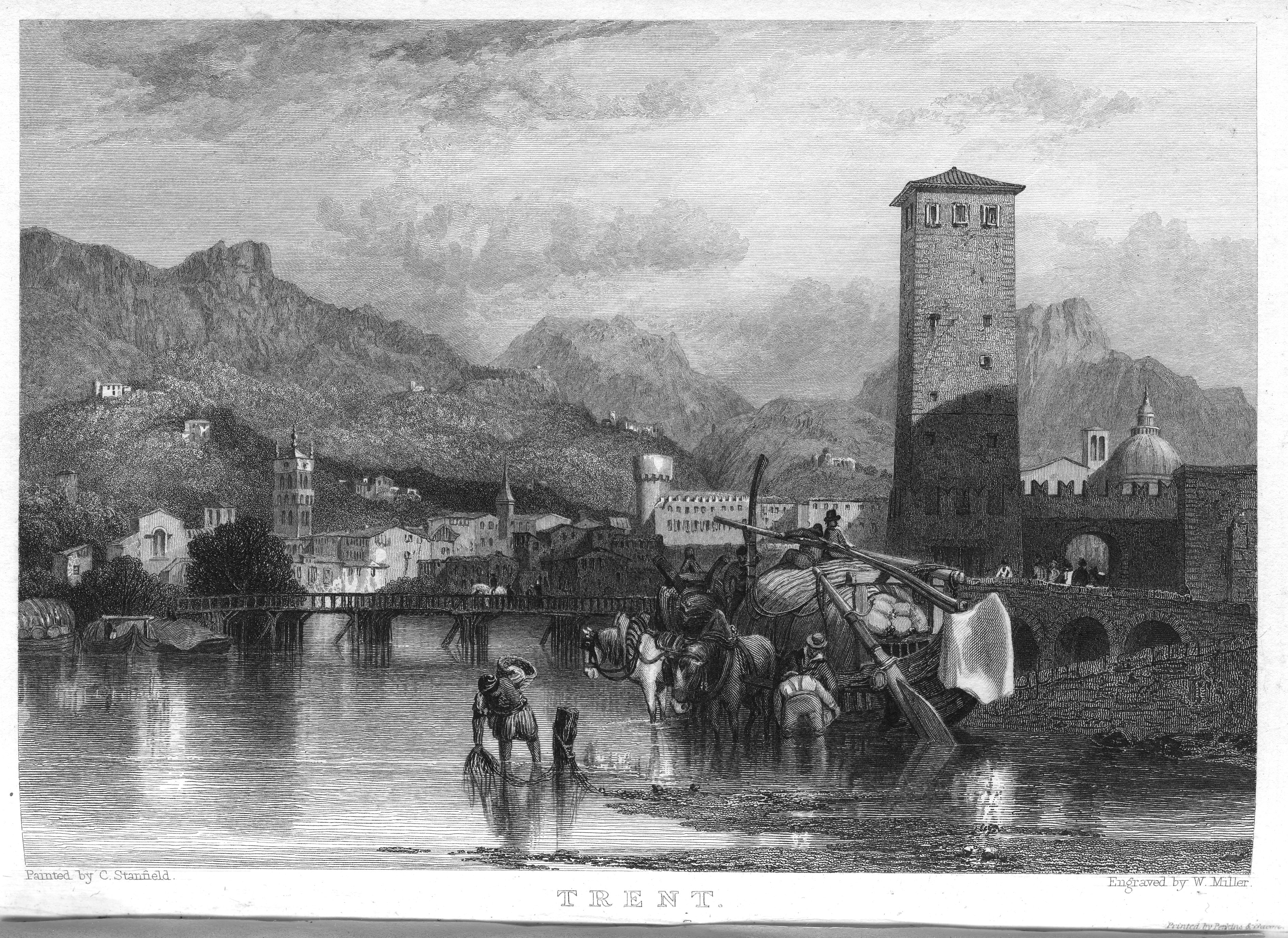 Trent (Italy); engraving by William Miller after Clarkson Stanfield (Miller paid £45-0-0 in ix 1831 for engraving), published in Heath's Picturesque Annual for 1832, Travelling Sketches in the North of Italy, the Tyrol, and on the Rhine. With Twenty Six Beautifully Finished Engravings from Drawings by Clarkson Stanfield. Charles Heath. London: Published for the Proprietor by Longman, Rees, Orme, Brown and Green. 1832